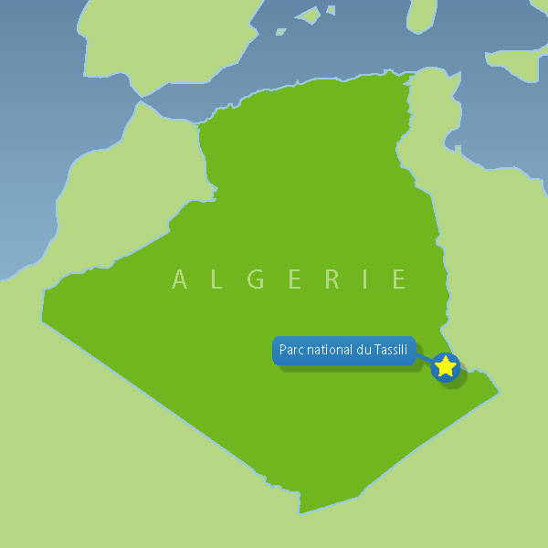 Map of National parks of Algeria, Tassili National park